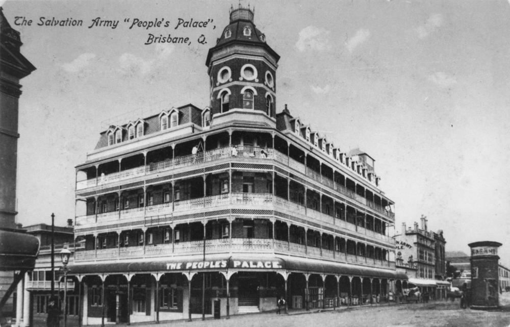 People's Palace after extensions were added, Ann Street, Brisbane, ca. 1913. The People's Palace was built on the corner of Ann and Edward Streets by the Salvation Army in 1910-1911. It was a temperance hotel built near the Central Railway Station in Brisbane. The rules were strictly no alcohol or gambling. It existed to provide affordable accommodation for working class people. In 1913 two more storeys were added to the original three storey building. (Information taken from: The Department of Environment and Heritage registers and inventory website, 2006, retrieved 13 February 2007 from ).